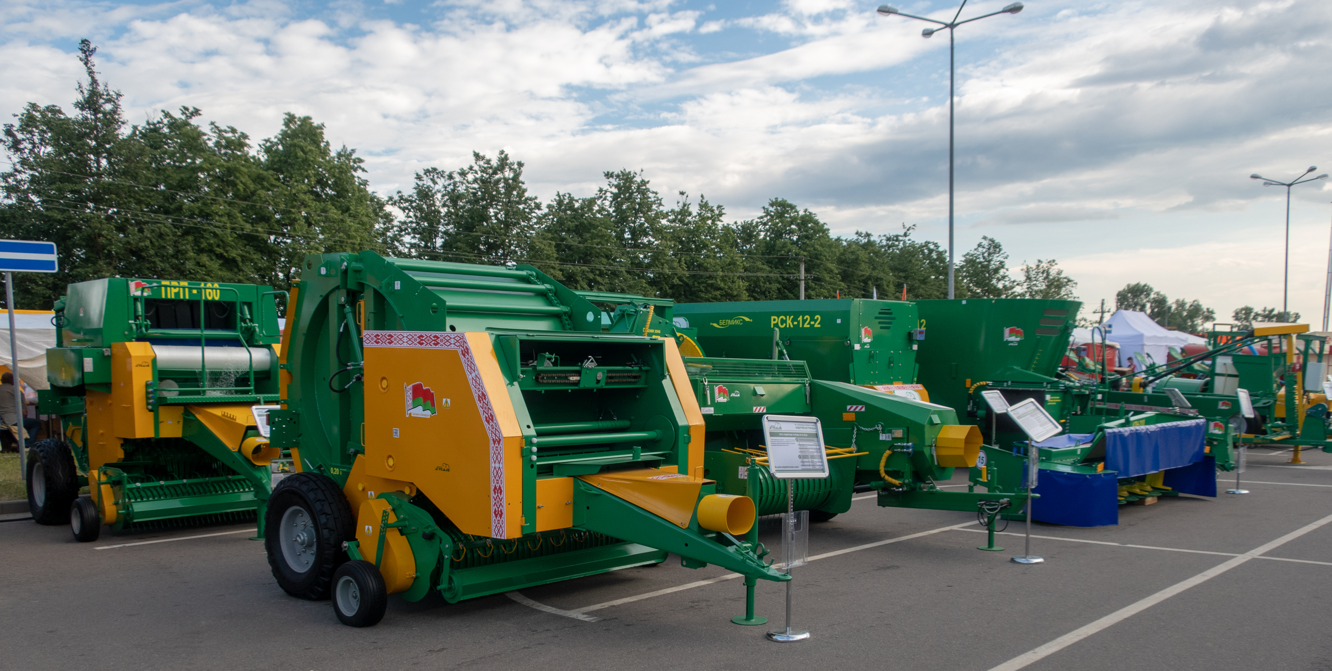 Photo taken at Belagro-2019 exhibition (Minsk district, Belarus)